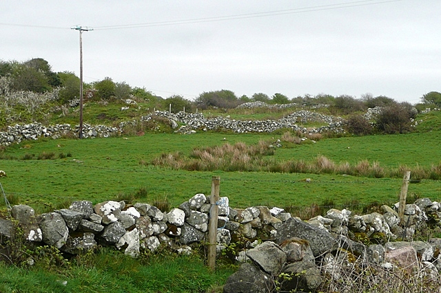 An Spidéal Thuaidh (Spiddle North) The pasture just north of the town is characterised by the numerous stone walls. The stones were collected together to create enough stone-free grazing space in the first place, so were then put to good use. This type of landscape is typical in many parts of Co Galway.